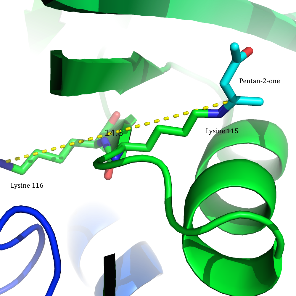 orienation of lysines in active site